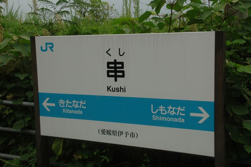 JR-Shikoku Yosan Line, Kushi Sta. Station name sign. photo by 2005.9.19